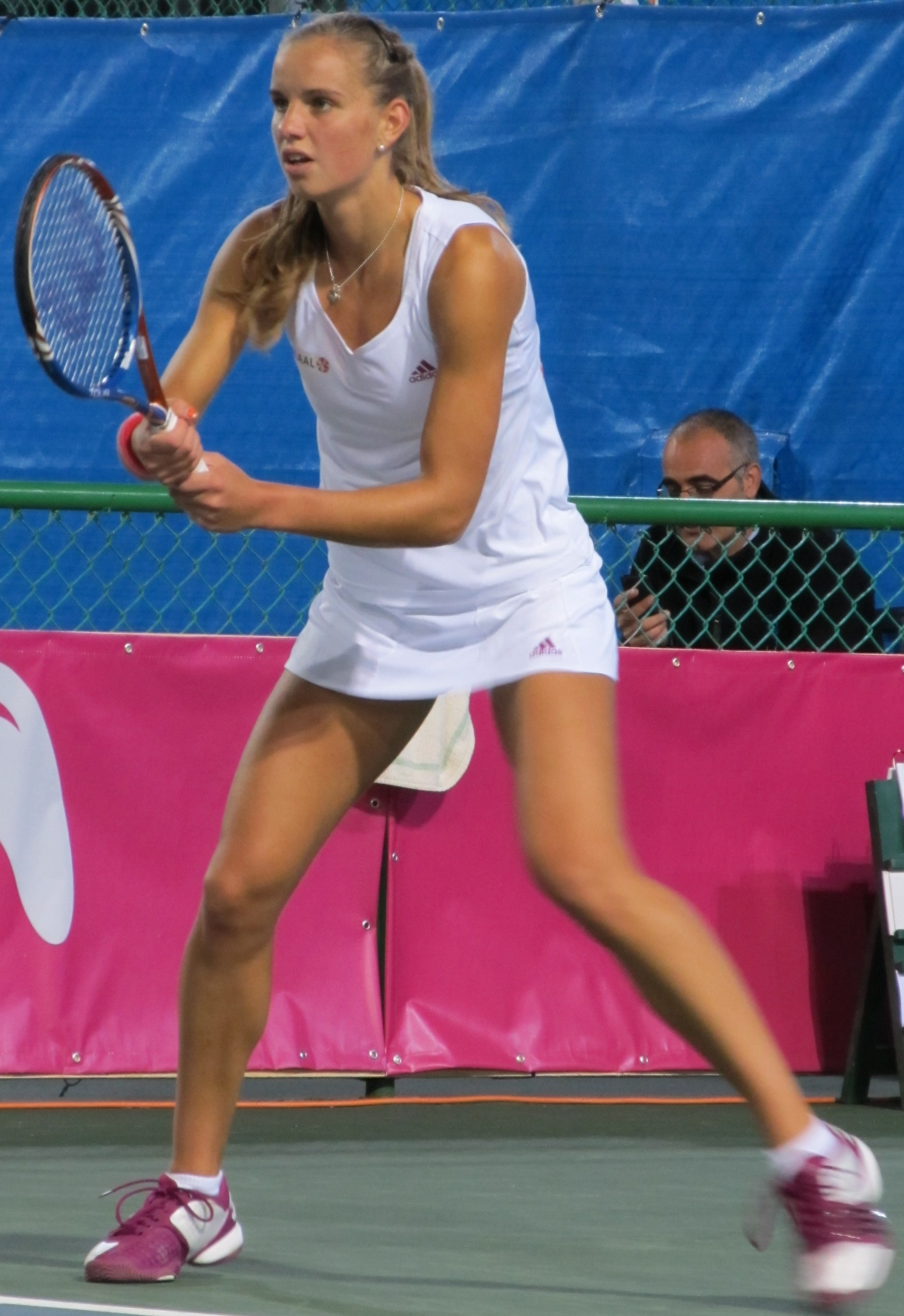 The tennis player Arantxa Rus of the Netherlands during her doubles match with Michaella Krajicek (Netherlands) against Patty Schnyder and Timea Bacisinszky of Switzerland in the 4th day of Fed Cup Group I 2011 Europe/ Africa in Eilat, Israel